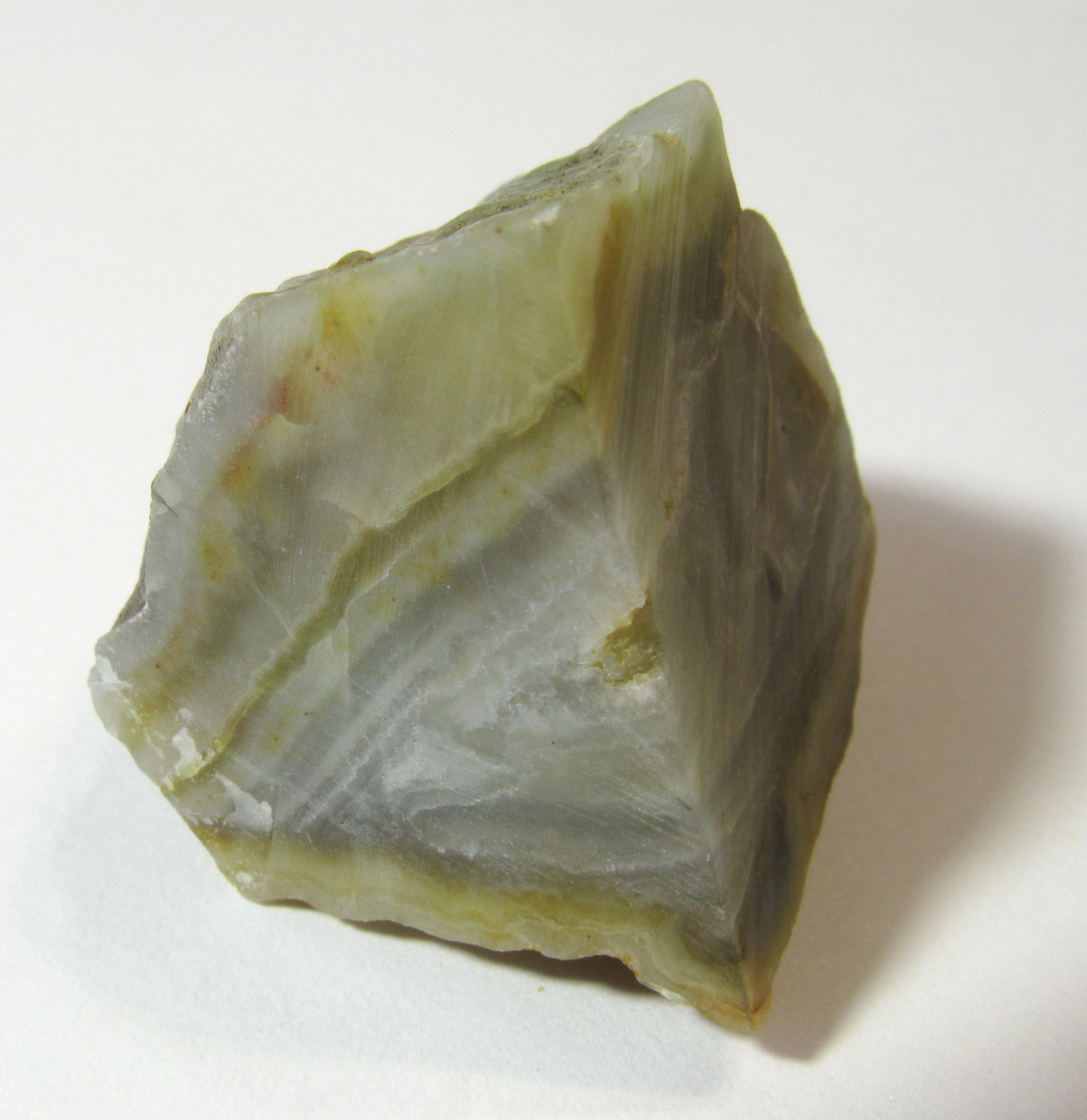 Perelivt from Shaytanka